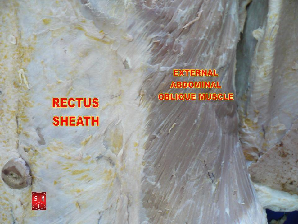 Dissection of a human Rectus abdominis sheath